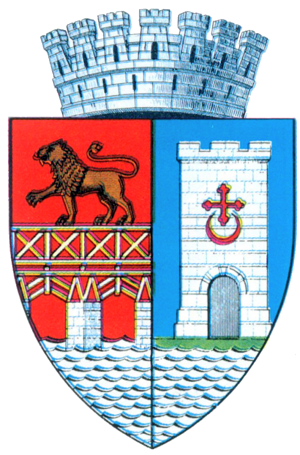 Coat of arms of Drobeta Turnu Severin, Romania.